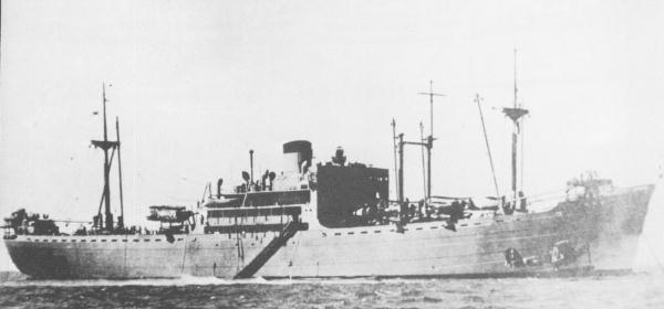 Japanese seaplane tender "Kagu-maru" off Chinese coast.